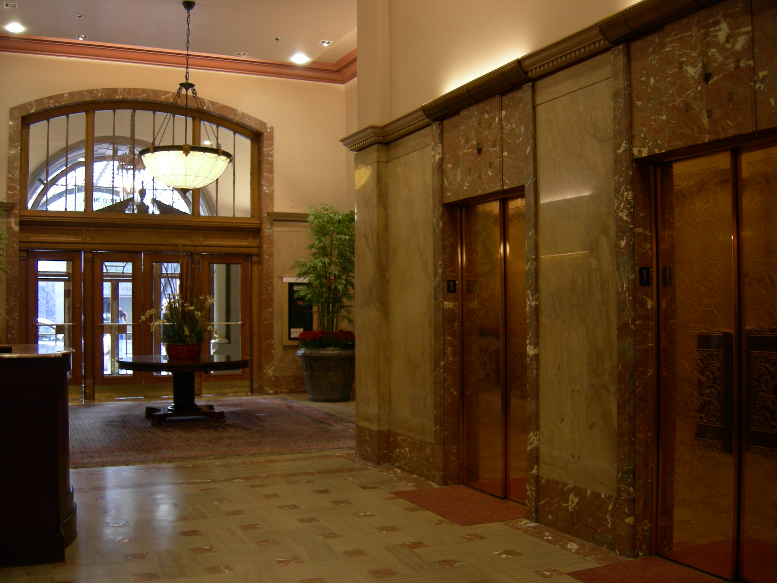 Lobby, Colman Building, Seattle, Washington, USA. The building, designed by John K. Shand, occupies an entire block, and is listed on the National Register of Historic Places, ID #72001272.